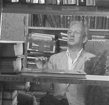 Picture of Irish writer Ronan Sheehan at the West Port Book Festival